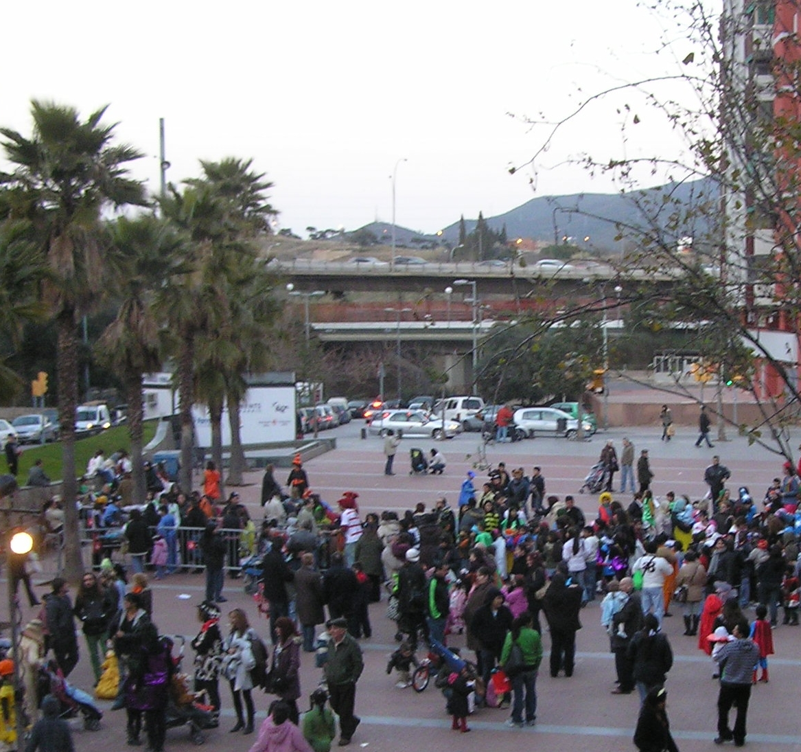 Festa infantil a la Plaça Roja.